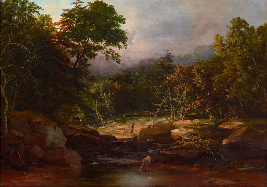 Painting by George Inness (formerly attributed to Asher B. Durand)